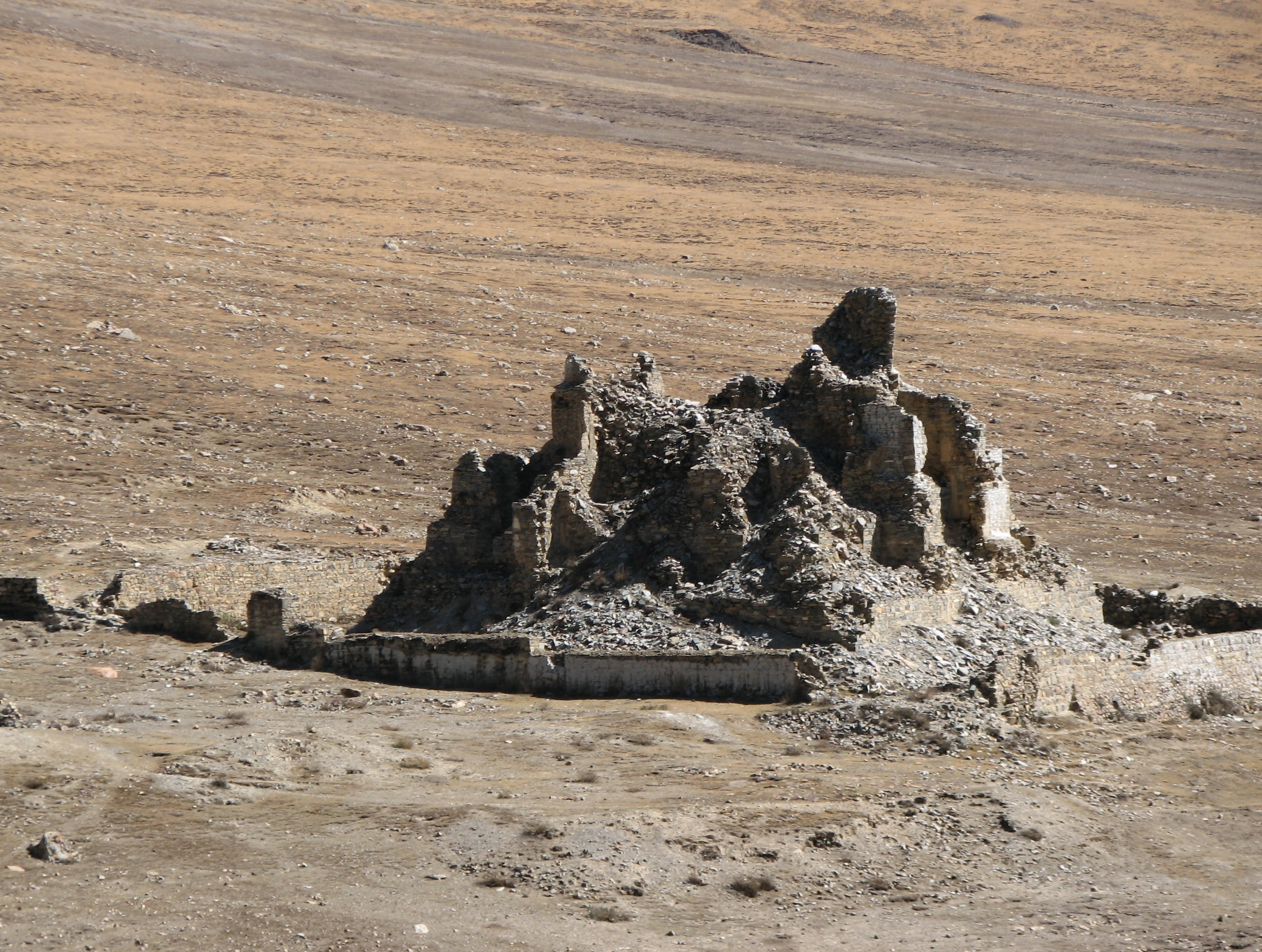 Ruin of Ralung gompa Kumbum (chorten) detroyed during the cultural revolution